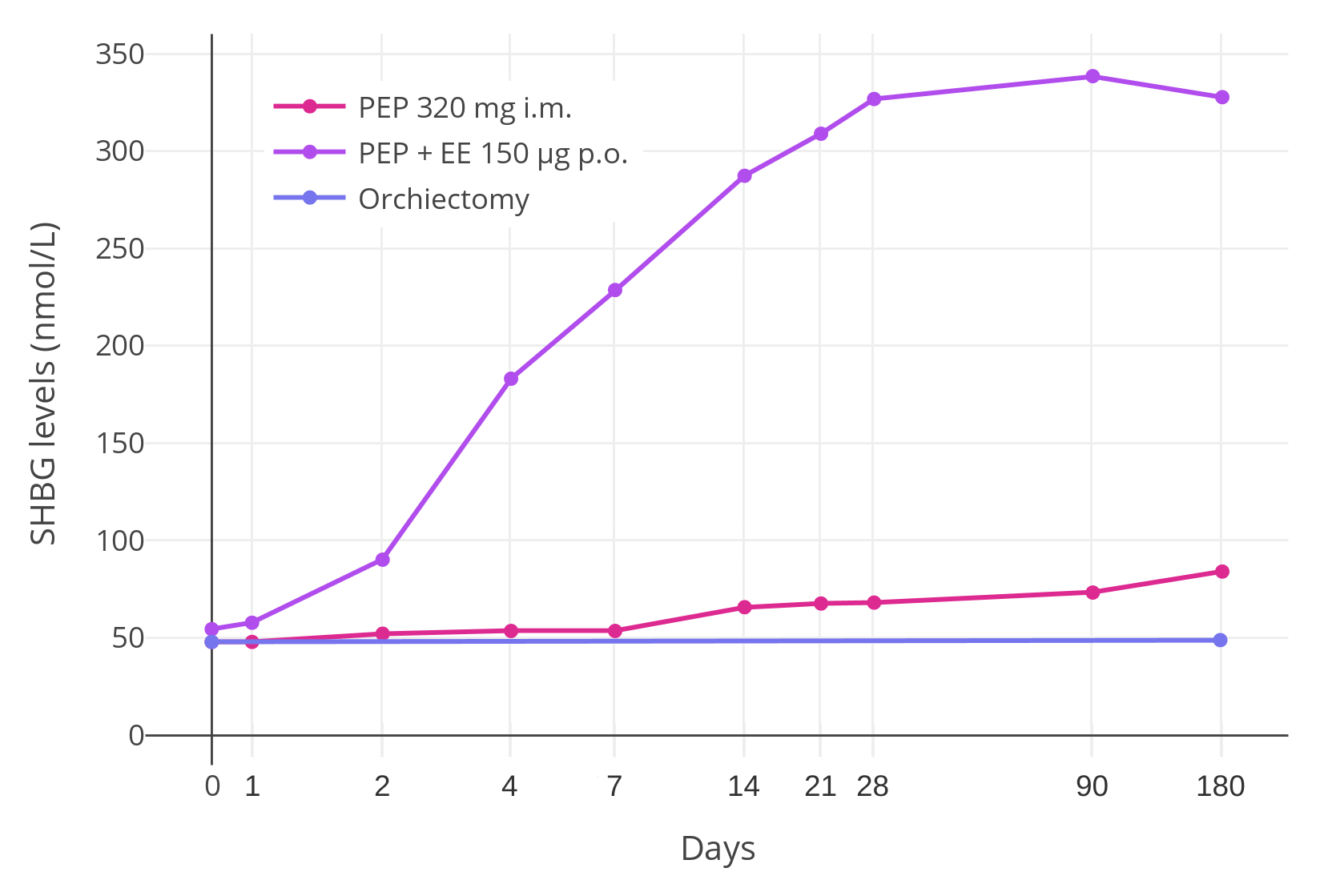 SHBG levels with polyestradiol phosphate, ethinylestradiol, and orchiectomy in men with prostate cancer. PEP 320 mg i.m. = once every 4 weeks (166% SHBG). PEP + EE 150 µg p.o. = PEP 80 mg i.m. once every 4 weeks, EE 150 µg/day orally (617% SHBG). Orchiectomy = surgical castration and no other treatments.